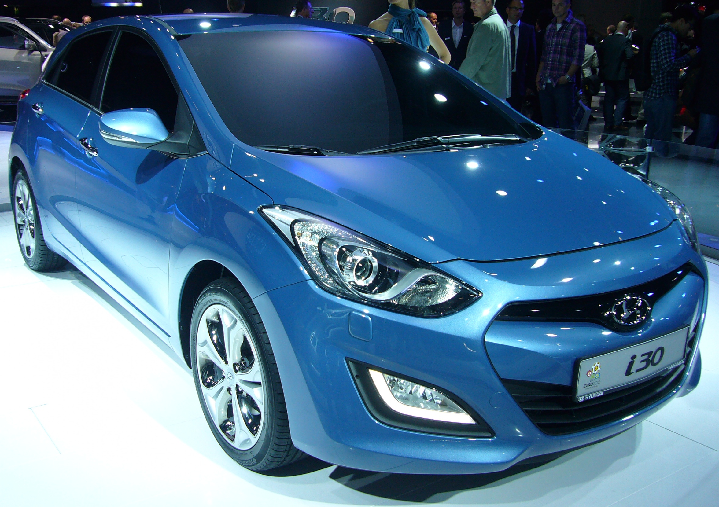 Hyundai i30 (GD) at IAA Frankfurt 2011